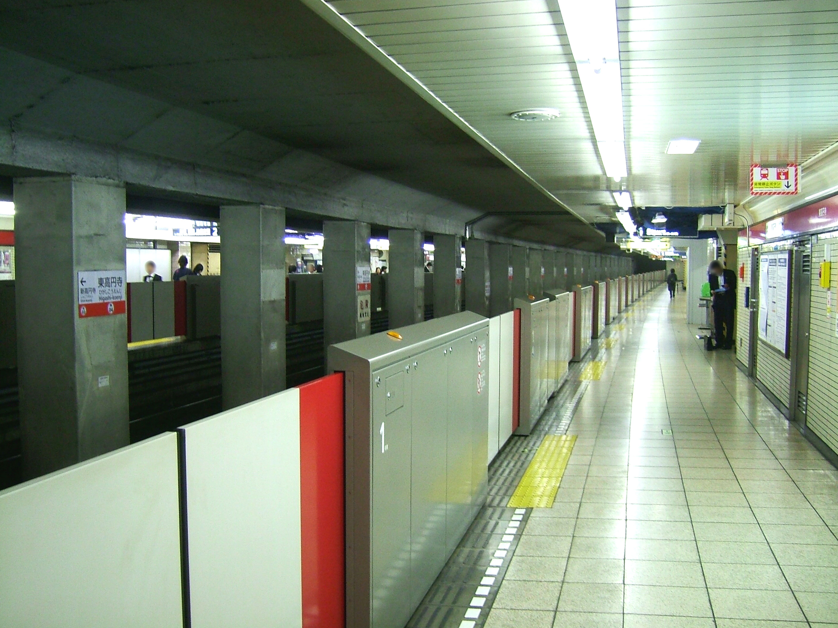 Higashi-Kōenji Station platform (Tokyo Metro Marunouchi Line)